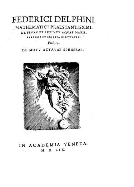 Title page